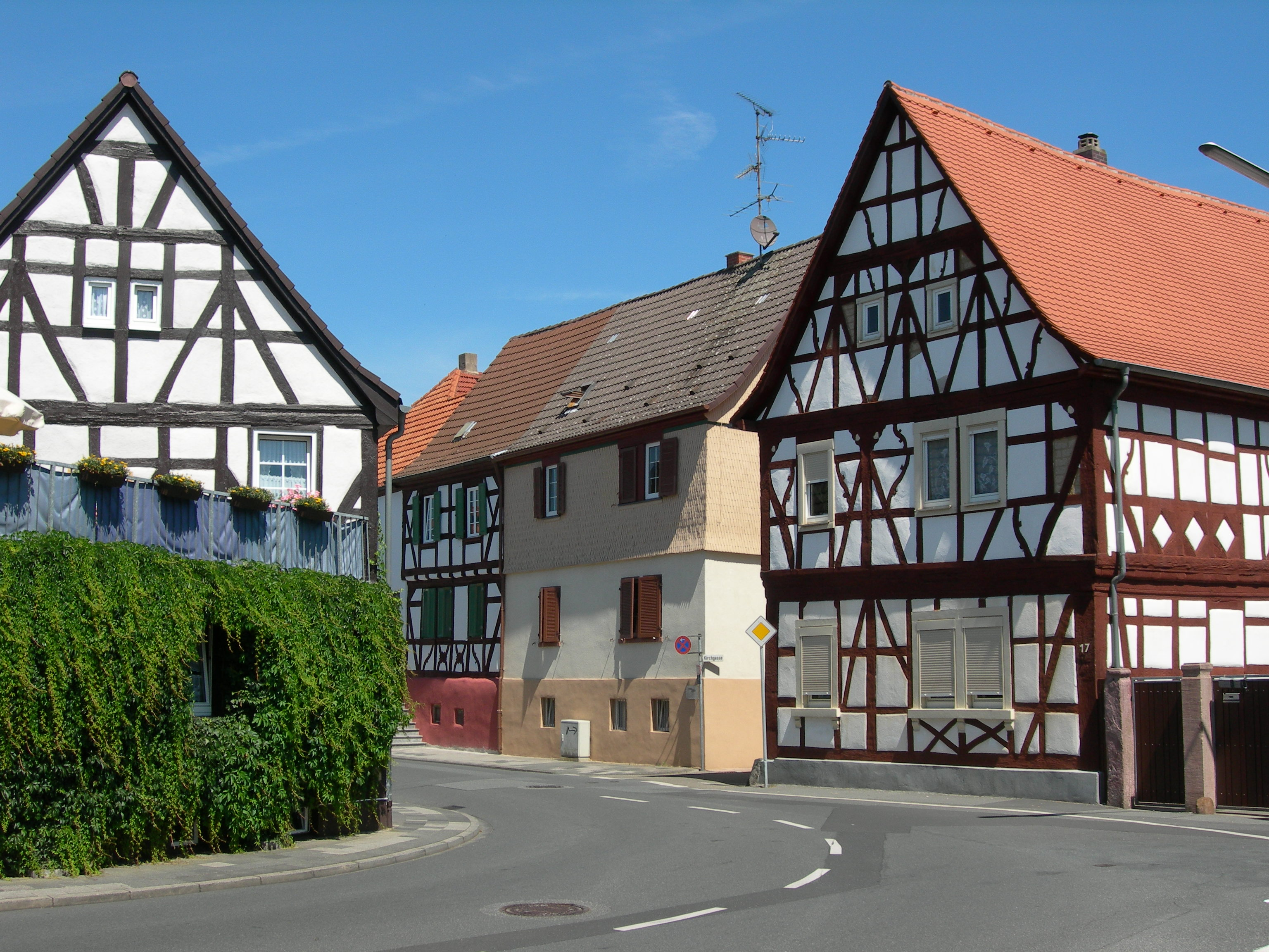 Mörfelden-Walldorf (Hesse), historic houses